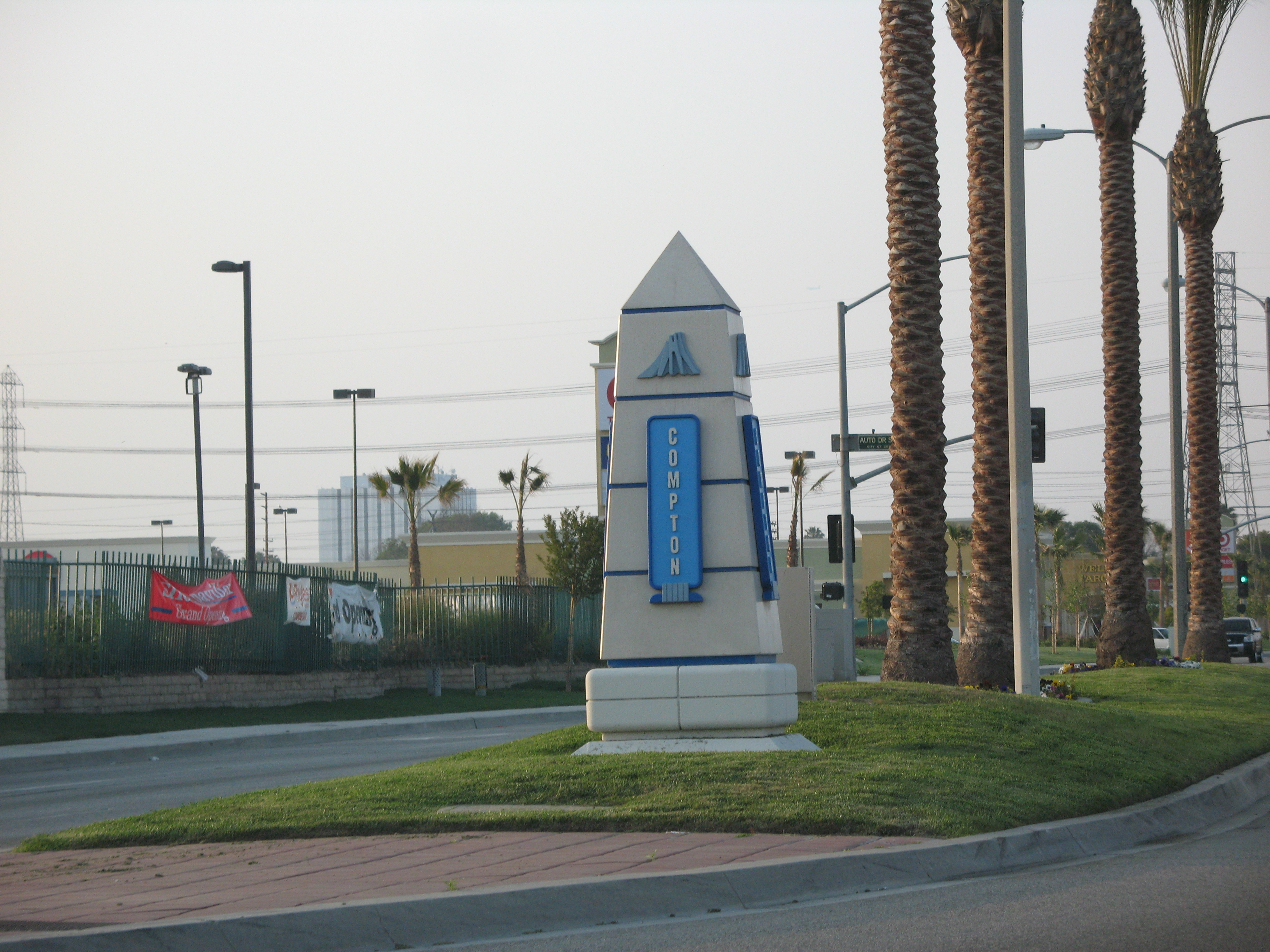 entering compton